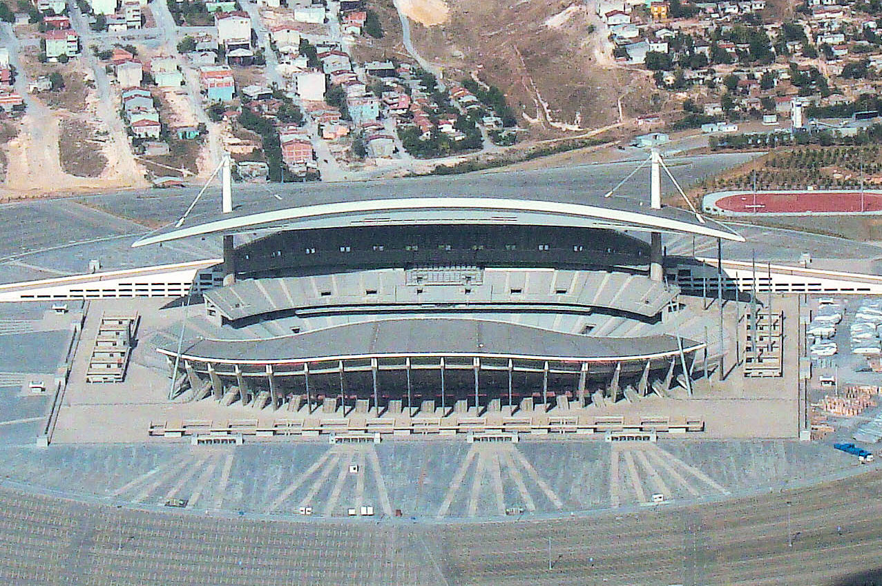 Atatürk Olympic Stadium/Atatürk Olimpiyat Stadı photographed from a north-bound passenger plane shortly after take-off from Atatürk International Airport. Construction of the stadium was completed in 2002, with room for 75,486 people to sit, lots of cars to park and at least three helicopters to land.